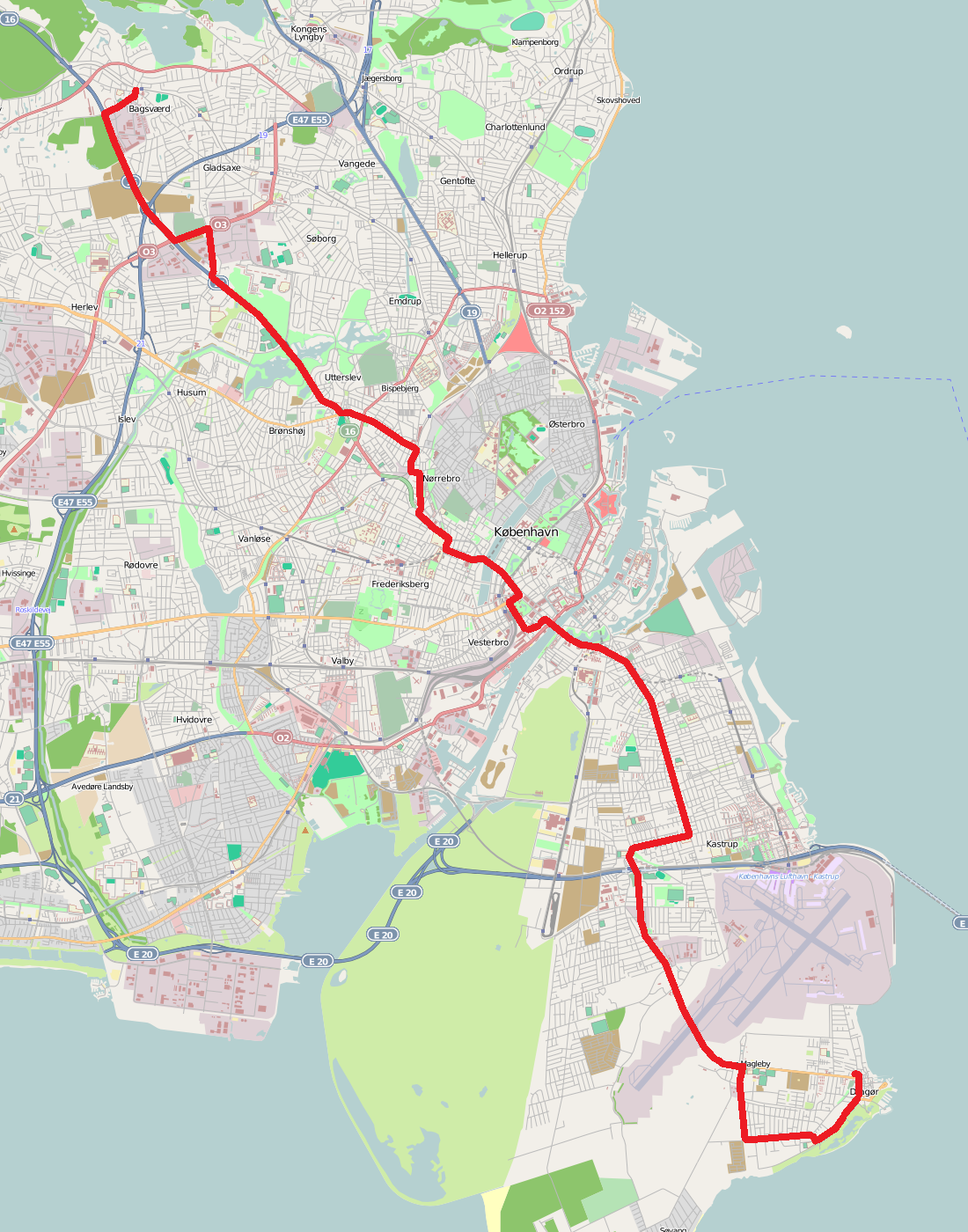 Map of the Copenhagen bus line 250S between Bagsværd Station and Dragør Stationsplads as of 13 October 2019. This map may be incomplete, and may contain errors. Don't rely solely on it for navigation.